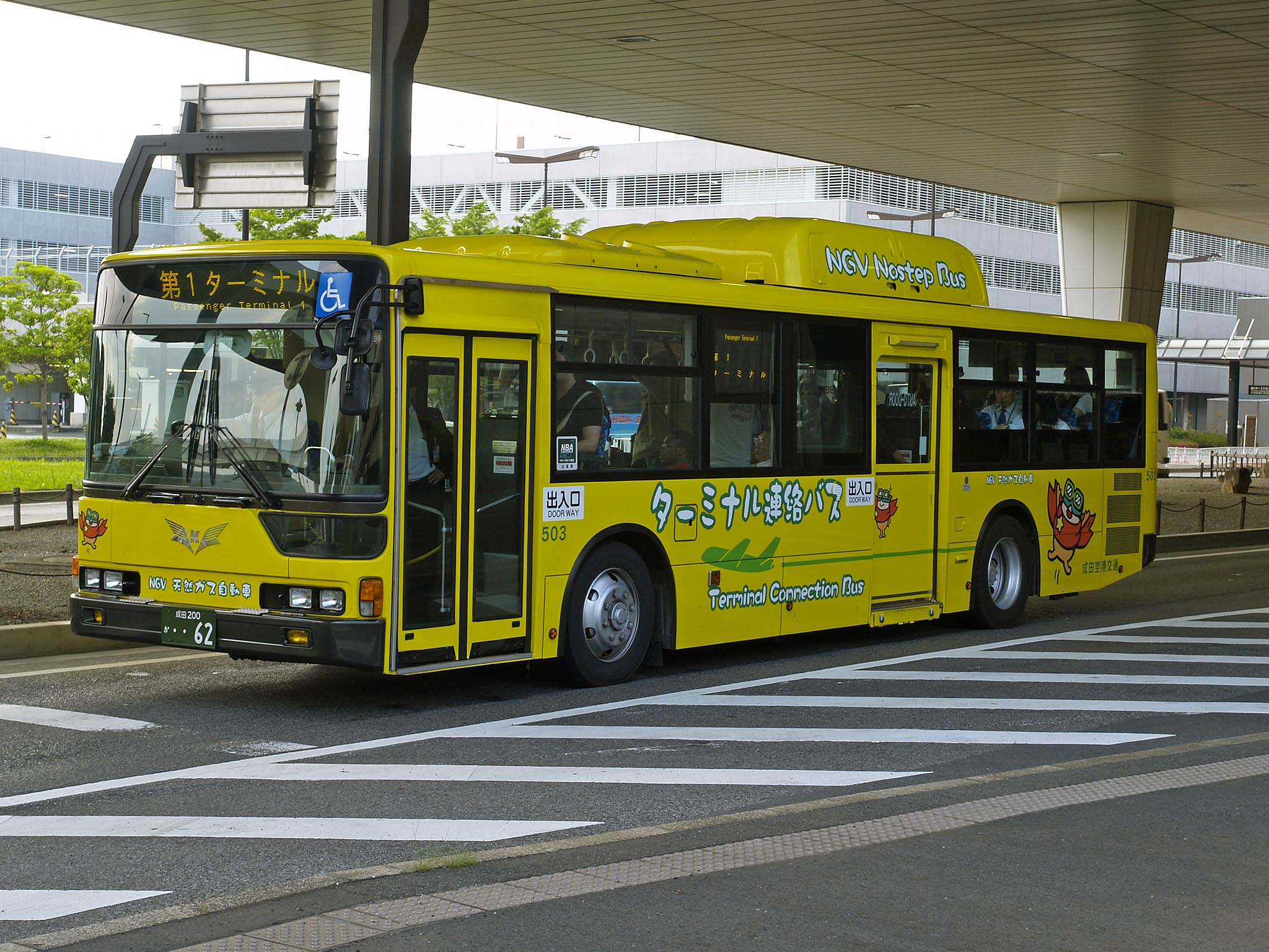 Fleet of Narita Airport Transport, for terminal connection bus at Narita International Airport. Model: Mitsubishi Fuso Aero Star MP37JM (maybe) License plate: CBR200 KA--62